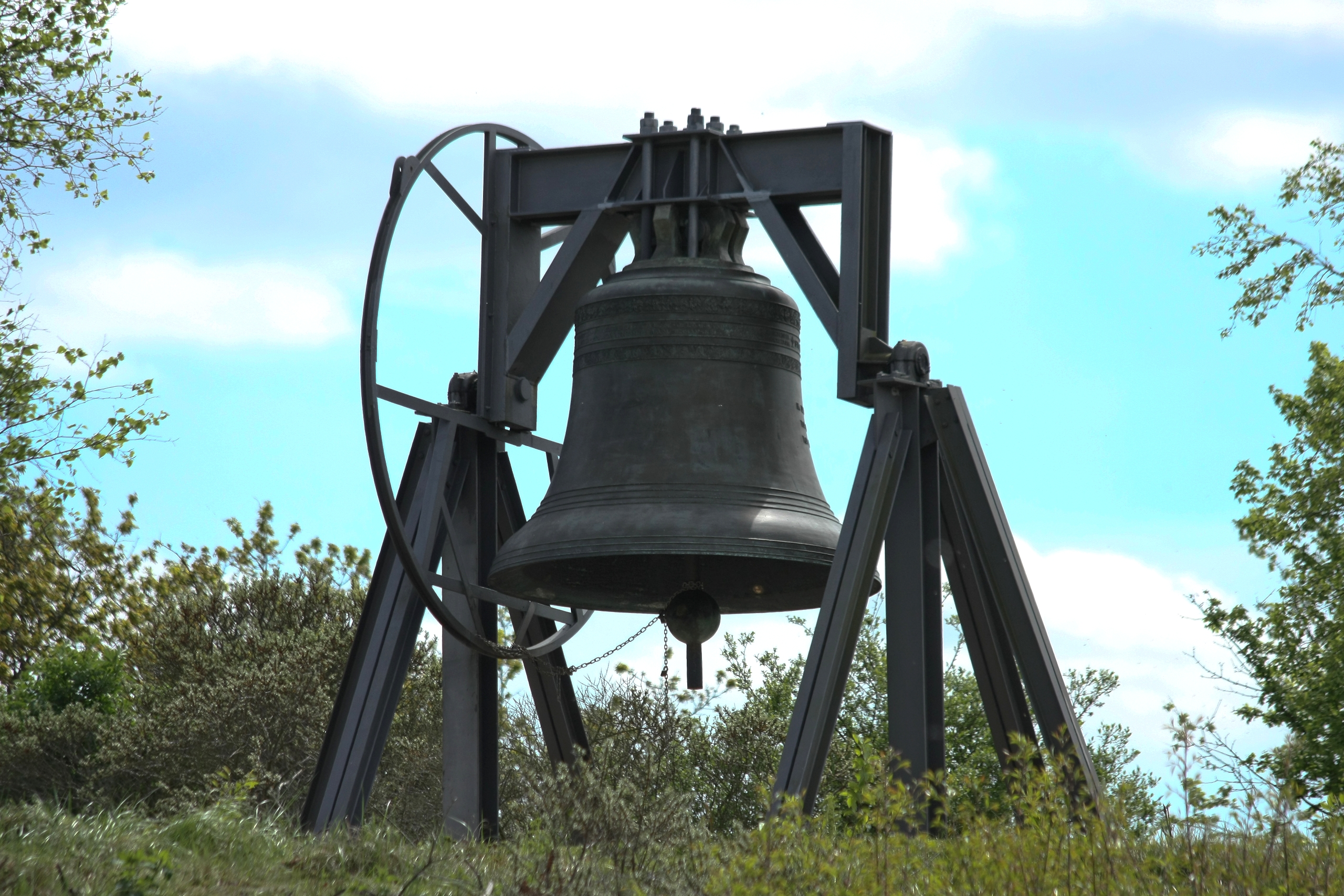 The Bourdon Clock is a large bell that rings once a year, on the 4th of May: the Dutch commemoration day. The inscription reads: "Ik luid tot roem en volging van die hun leven gaven tot wering van onrecht, tot winning der vrijheid en tot waring en verheffing van al Neerlands geestelijk goed." Translation: "I ring for glory and remembrance of those who gave their lives for stopping injustice, for gaining freedom and for protection and elevation of all Dutch spiritual effects"